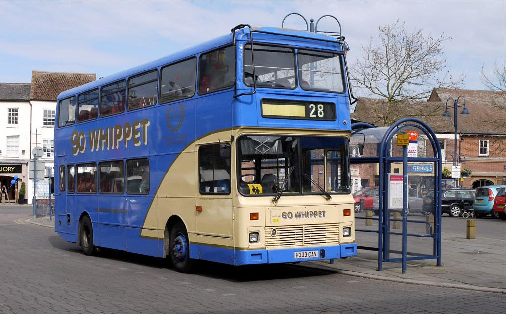 Go Whippet H303 CAV, a Volvo B10M/Northern Counties Palatine at St Neots, Cambridgeshire on route 28.